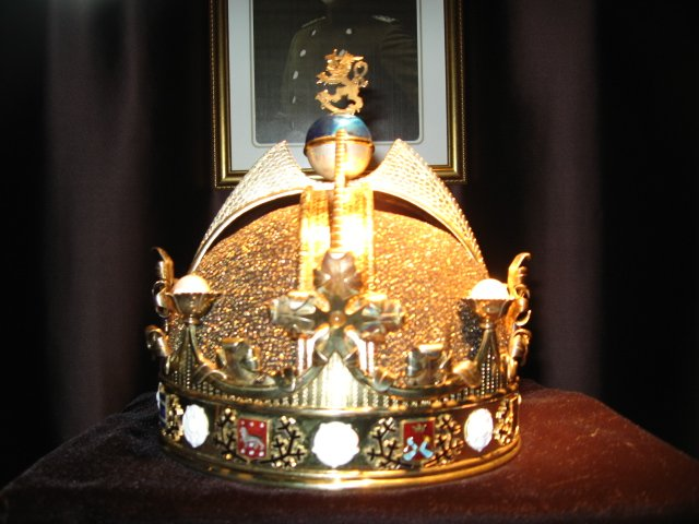 Unique crown designed for the first and only king of Finland. Crown locate in Kemi, Finland